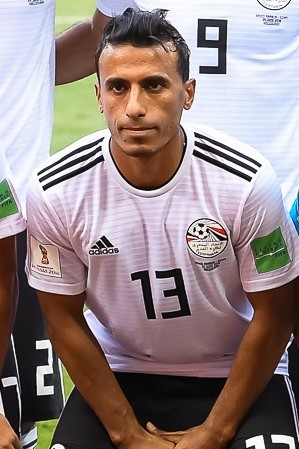 AbdelShafy